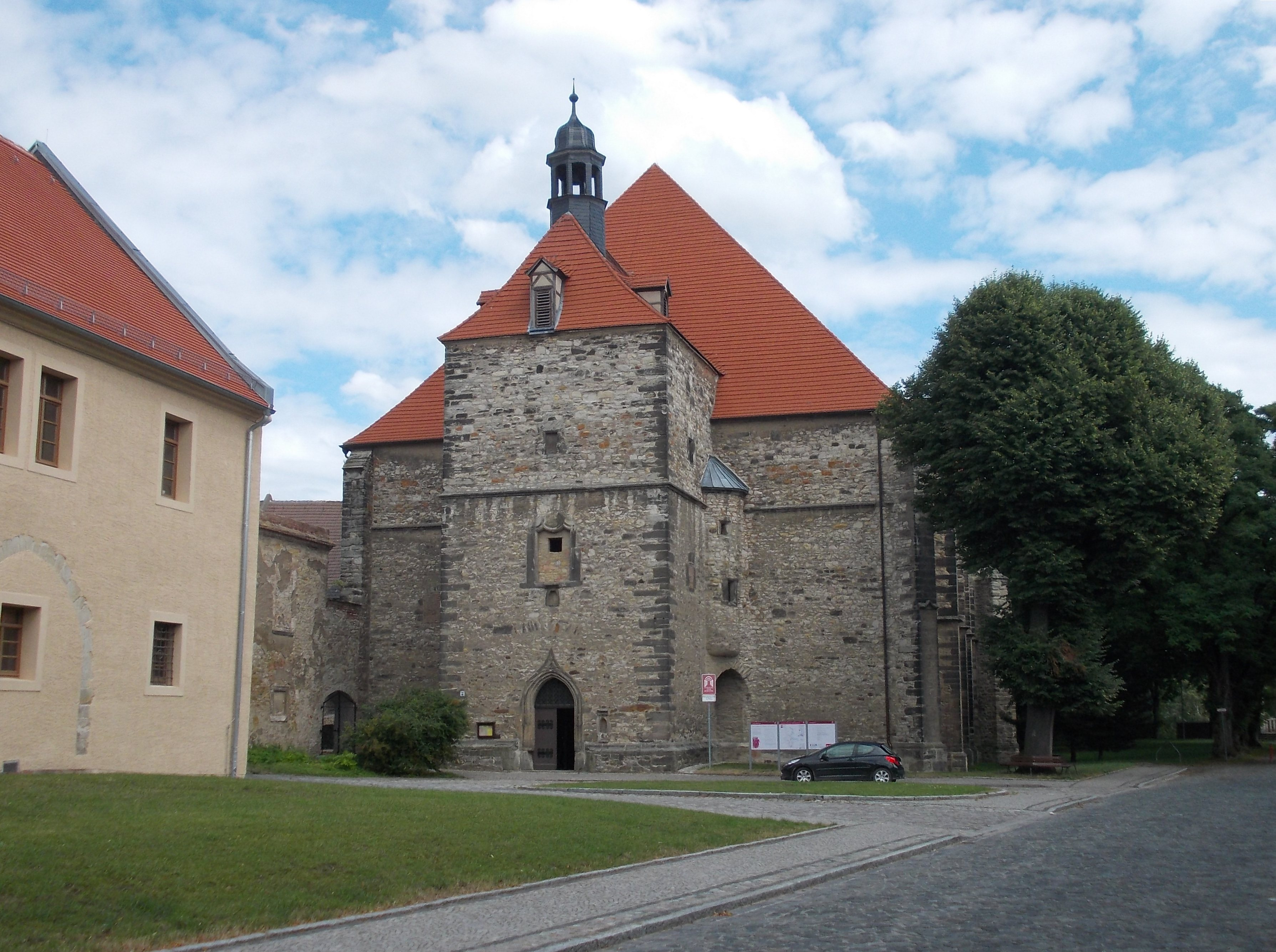 St. Mary and St. Cyprian Monastery Church in Nienburg/Saale (district: Salzlandkreis, Saxony-Anhalt)